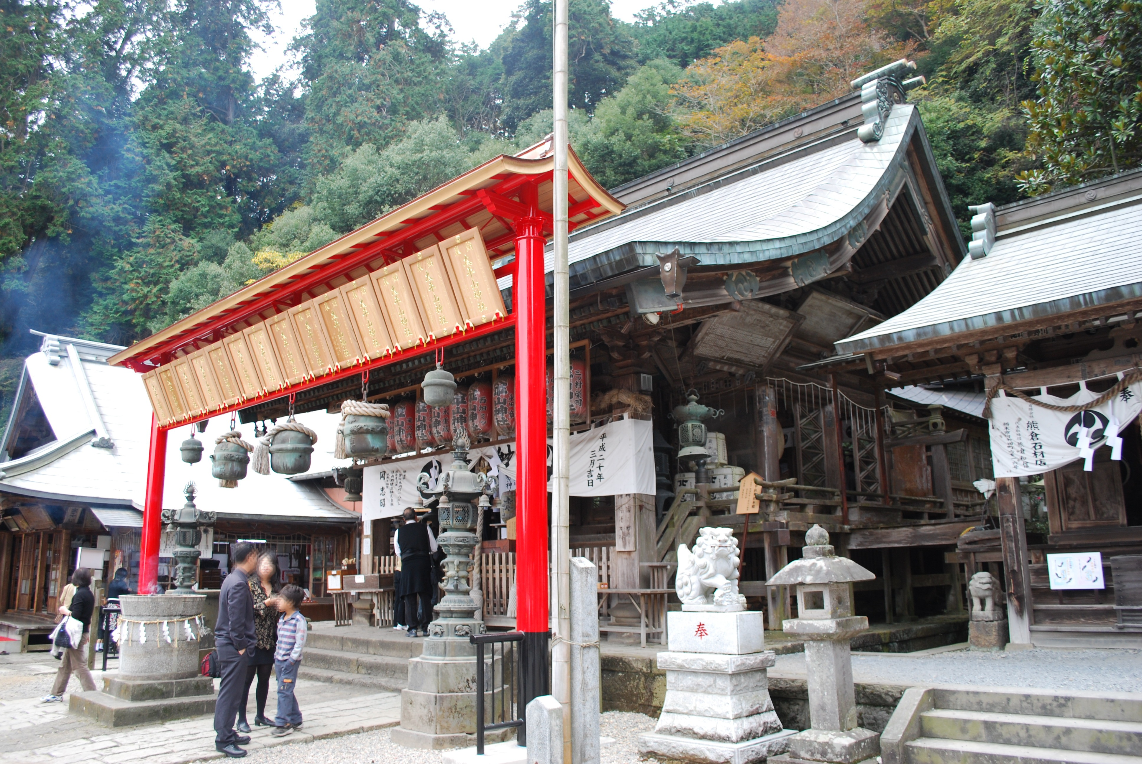 Ohirasan shrine-haiden,tochigi-city,japan